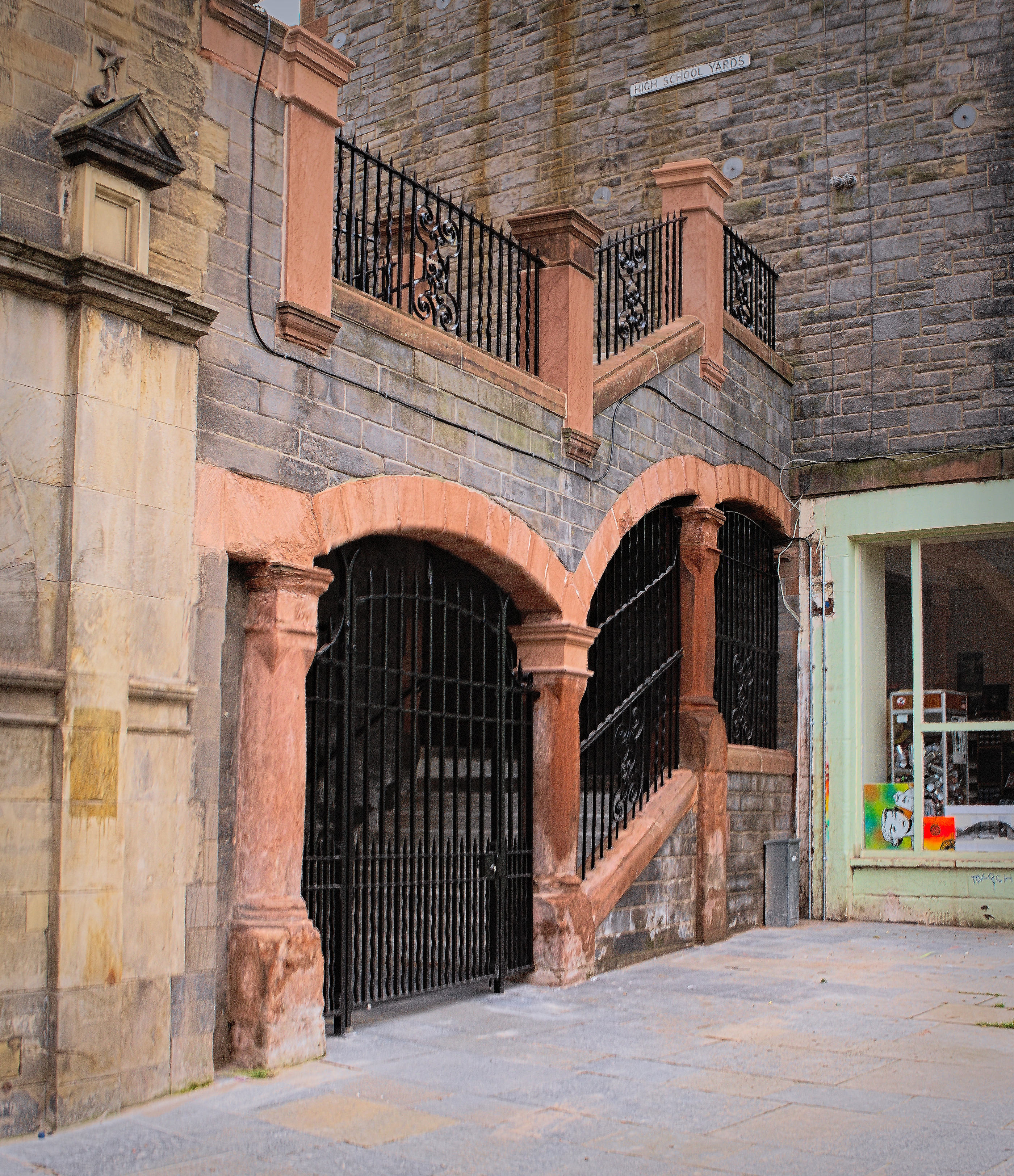 . Steps between Cowgate and High School Yards. Constructed in 1897 as a part of the 1893 Urban Sanitary Improvement Scheme.